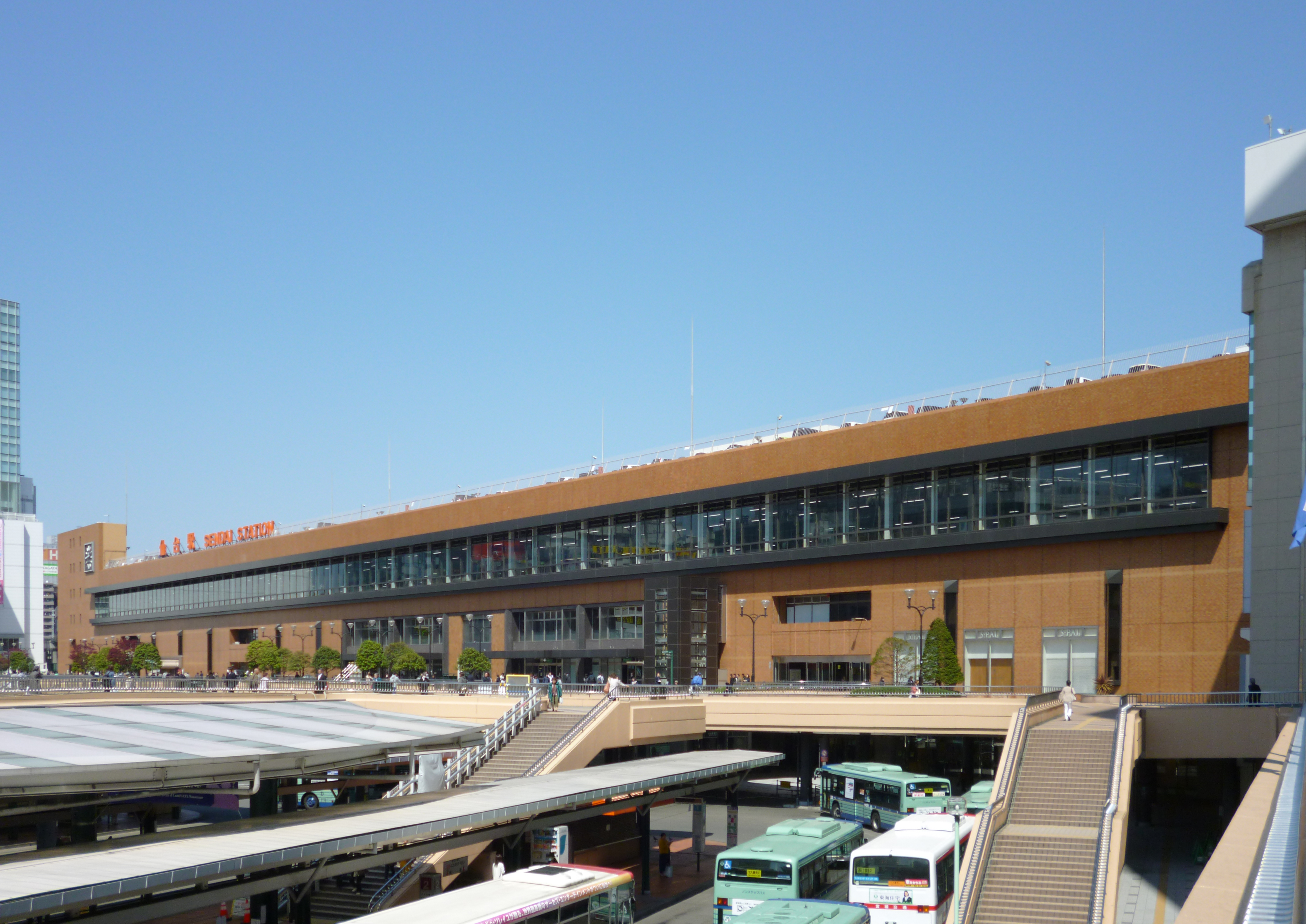 The west side of Sendai Station in Sendai, Miyagi Prefecture, Japan